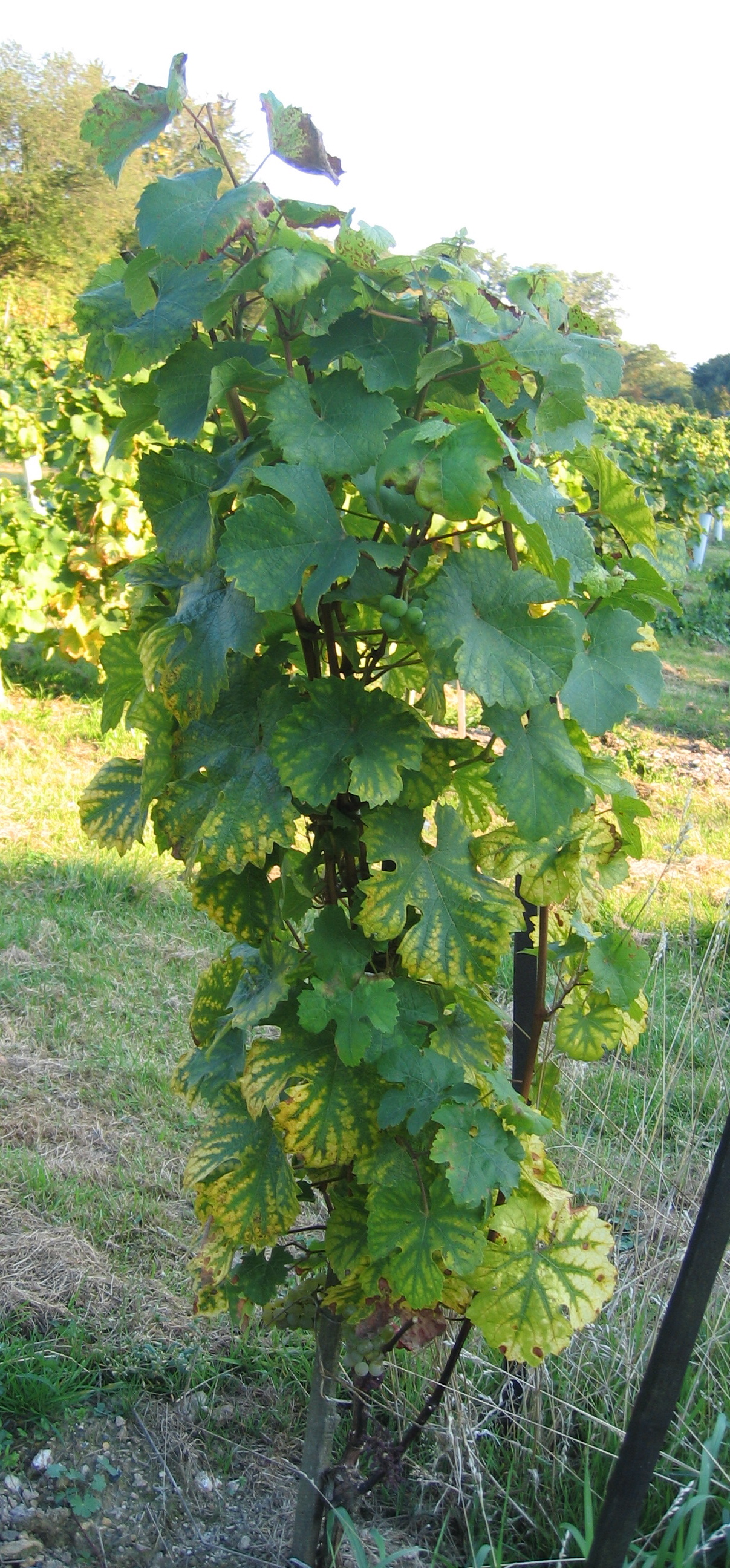 A vine of the variety Orléans with ripe grapes, on display in the exhibition next to Kloster Eberbach in Rheingau, Germany.